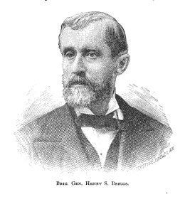 Etching of Brigadier General Henry S. Briggs.